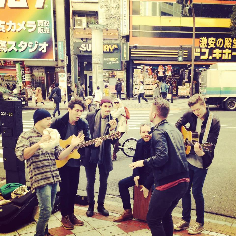 The Happy Hippo Family record an acoustic live session for Tokyo Acoustic Sessions